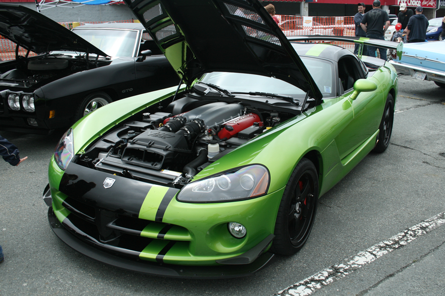 Viper ACR